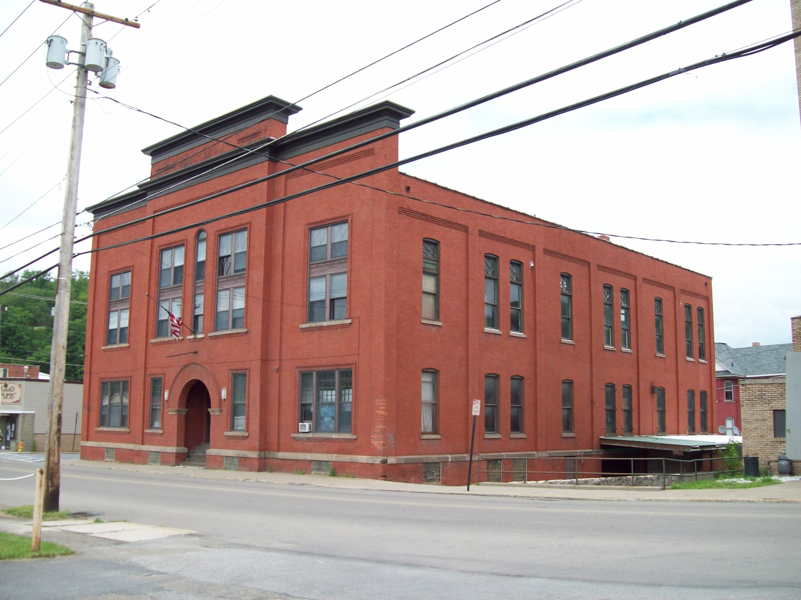 Ridgeway Armory, June 2009